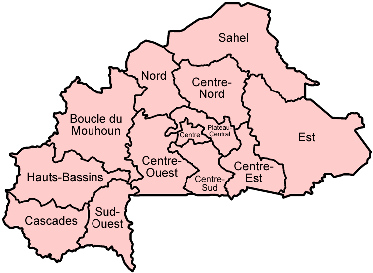 Map of the regions of Burkina Faso, named. Based on a United Nations map, made by User:Golbez.